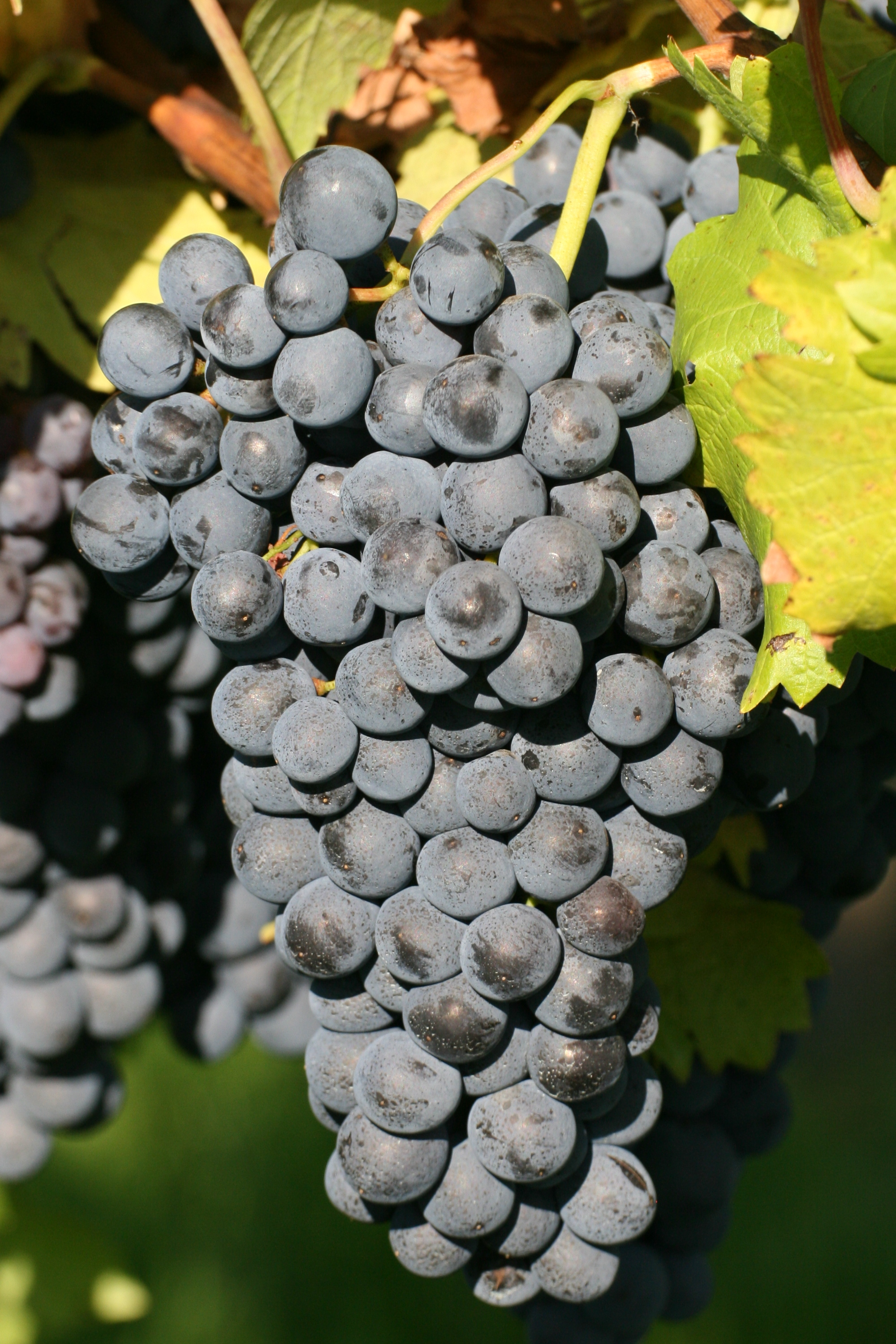 Grapes and leaves of the grape variety Helfensteiner, photographed in Lehrensteinsfeld